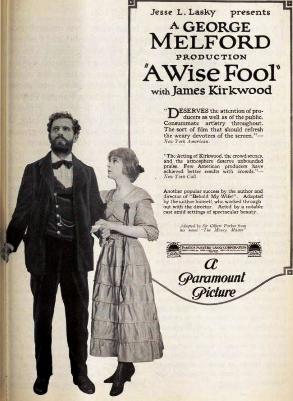 Advertisement for the American film A Wise Fool (1921) with James Kirkwood and Ann Forrest, on page 5 of the June 18, 1921 Exhibitors Herald.